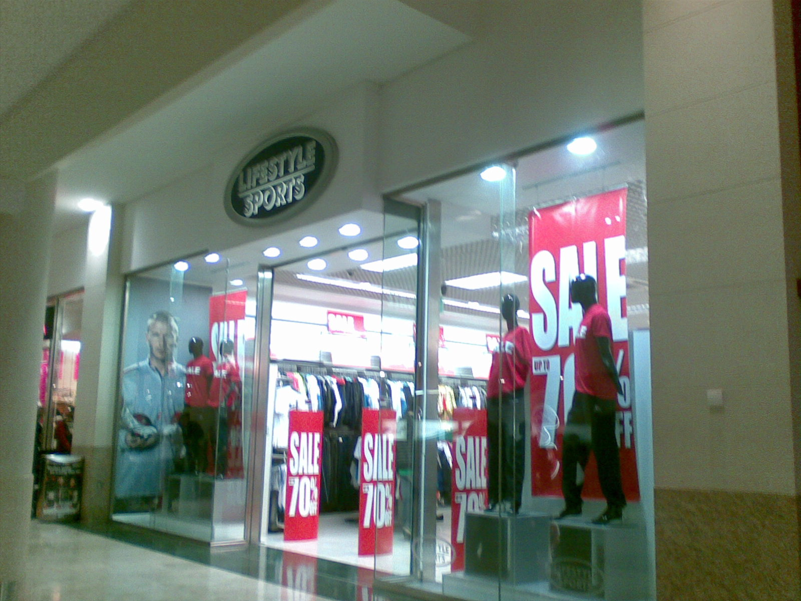 Lifestyle Sports, Dundrum Town Centre.